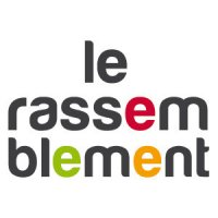 logo